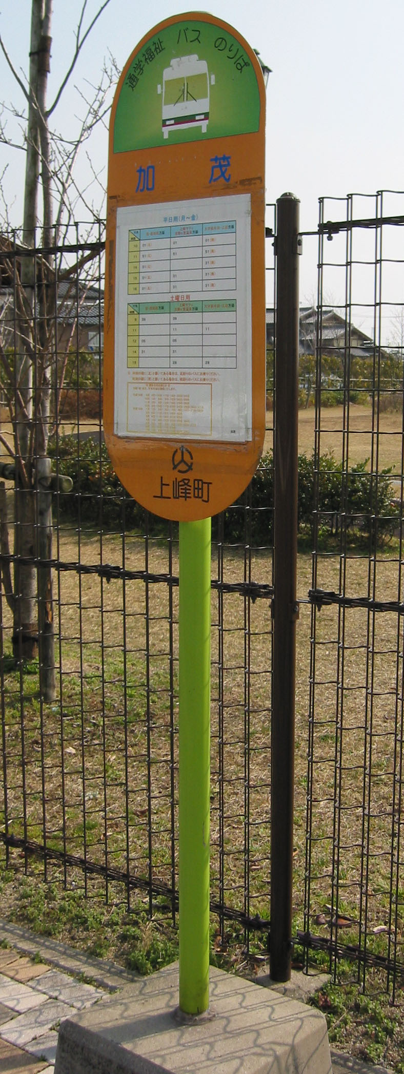 Kamimine Town Bus Kamo Bus Stop